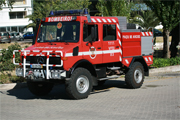 AHBVPA-VFCI 03